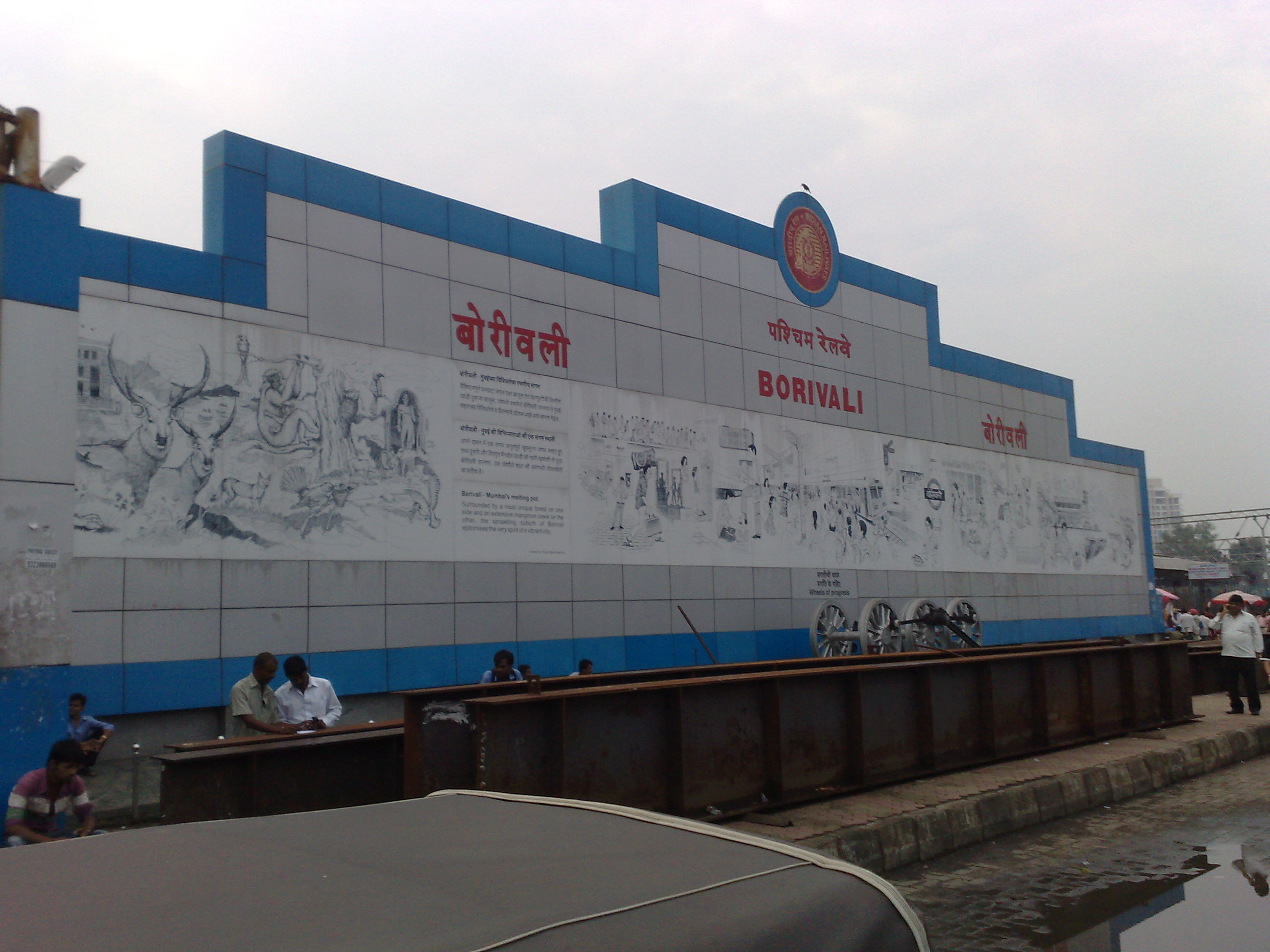 Borivali railway station - Entry